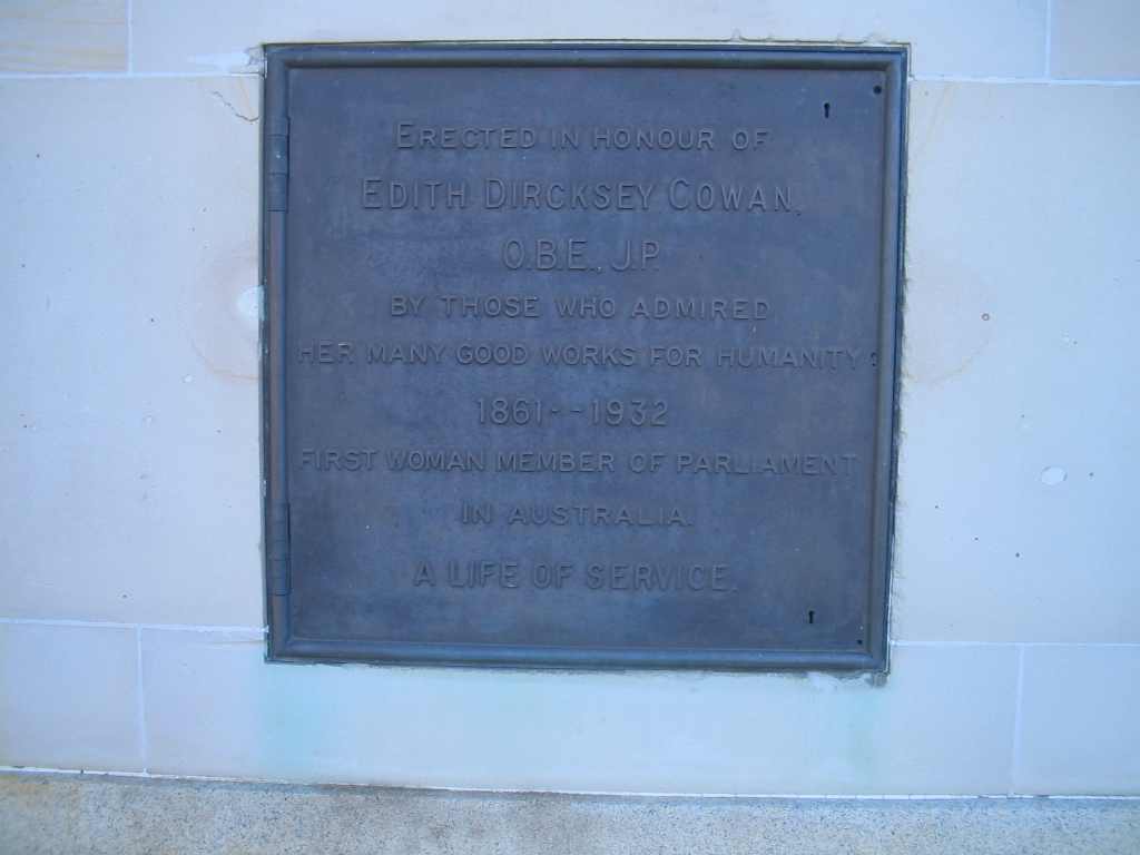 Edith Dircksey Cowan Memorial. Perth, Western Australia